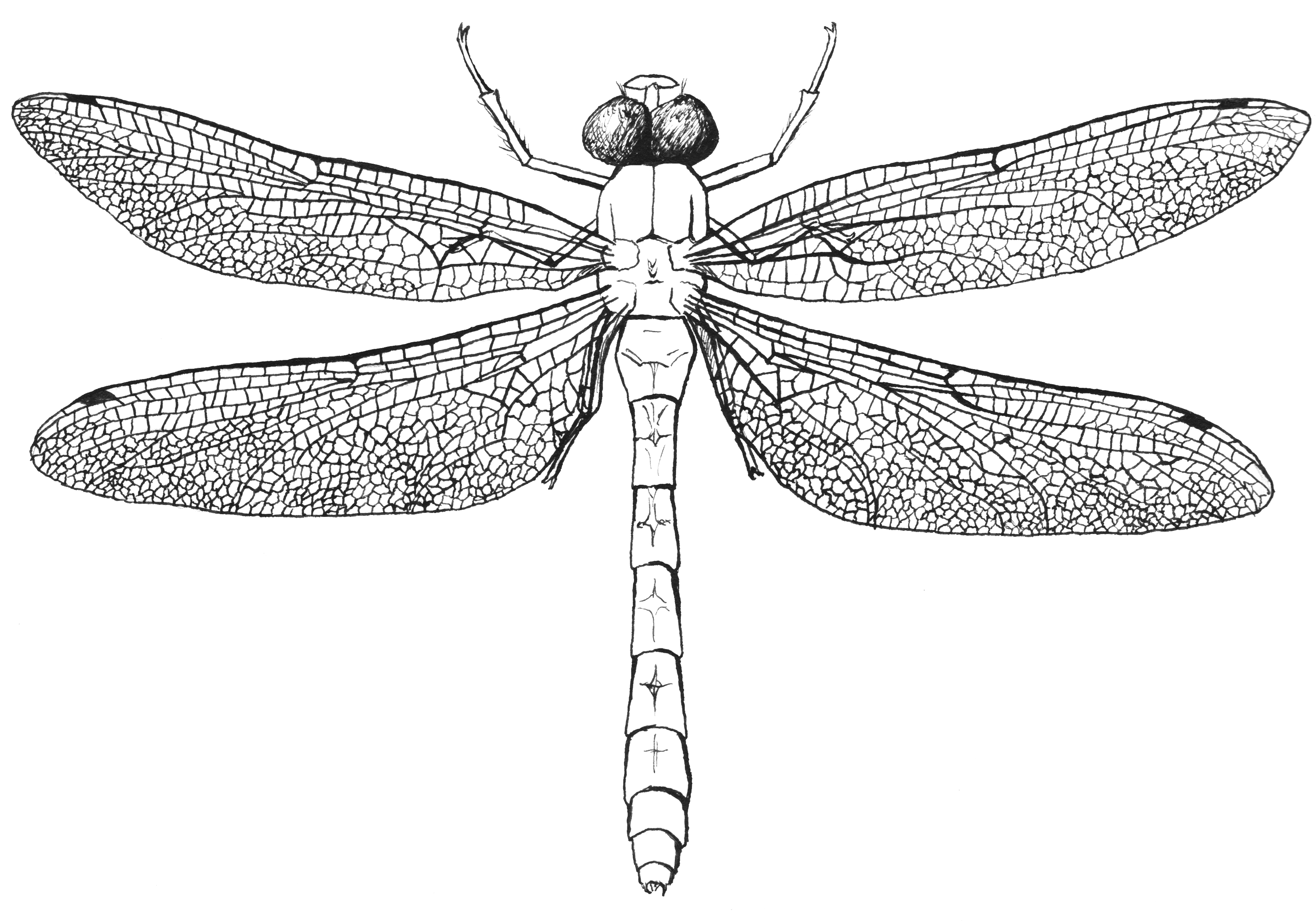 Odonata aeshnidae adult pen and ink illustration used for an identification pamphlet in the Amazon. Illustration by Anna Vlaminck.